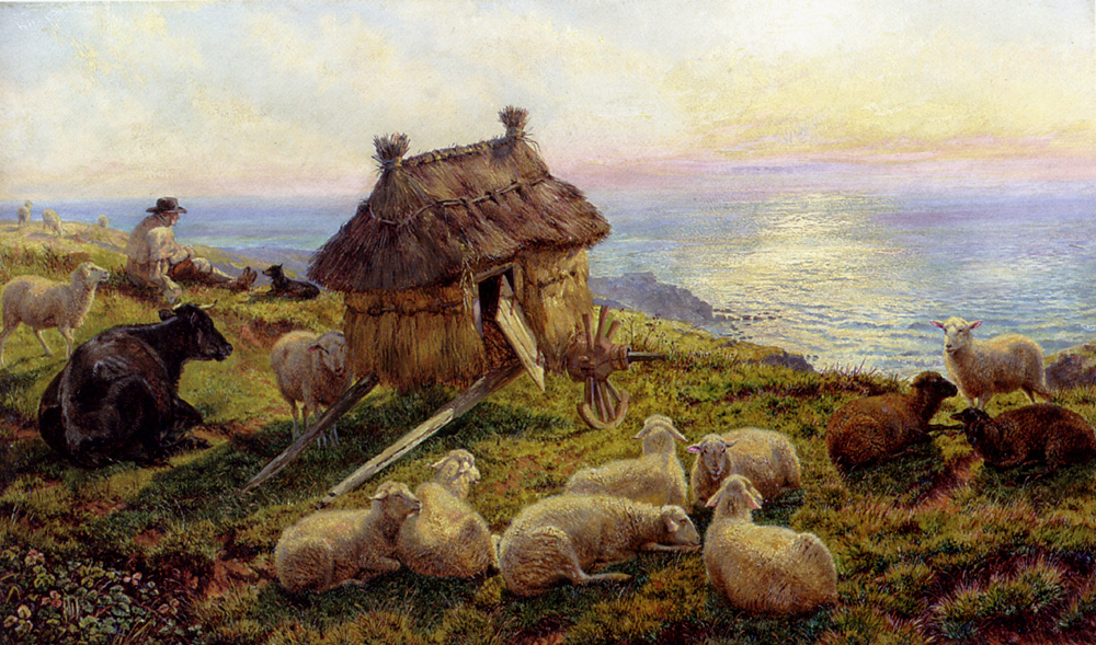 On The Cliffs, Picardy